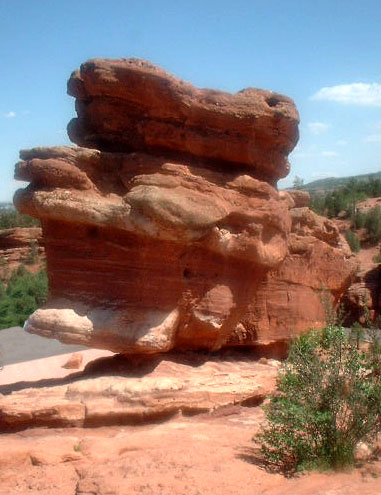 I started to climb it, like others had been doing, but then thought better of it.